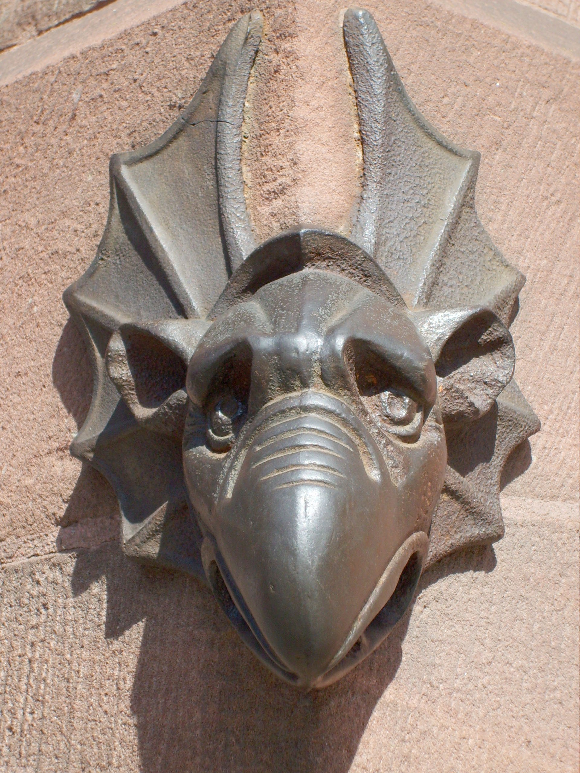 Mascaron on cathedral